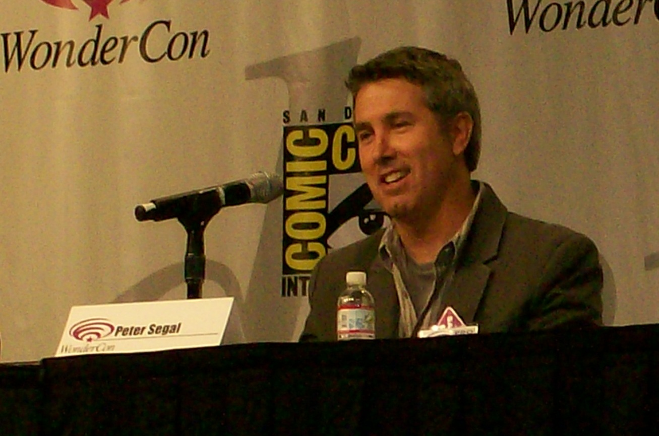 Peter segal at WonderCon. February, 2008.